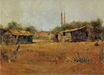 Native Location, Pretoria by Pieter Wenning, oil on canvas, 23 x 33 cm, dated 1911.